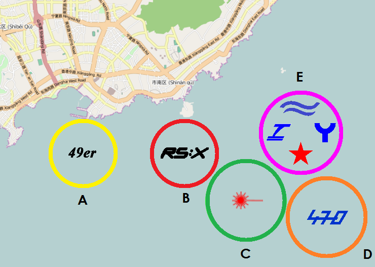 Qingdao Olympic Course Area's 2008 This map may be incomplete, and may contain errors. Don't rely solely on it for navigation.